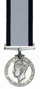 Conspicuous Gallantry Medal from the United Kingdom